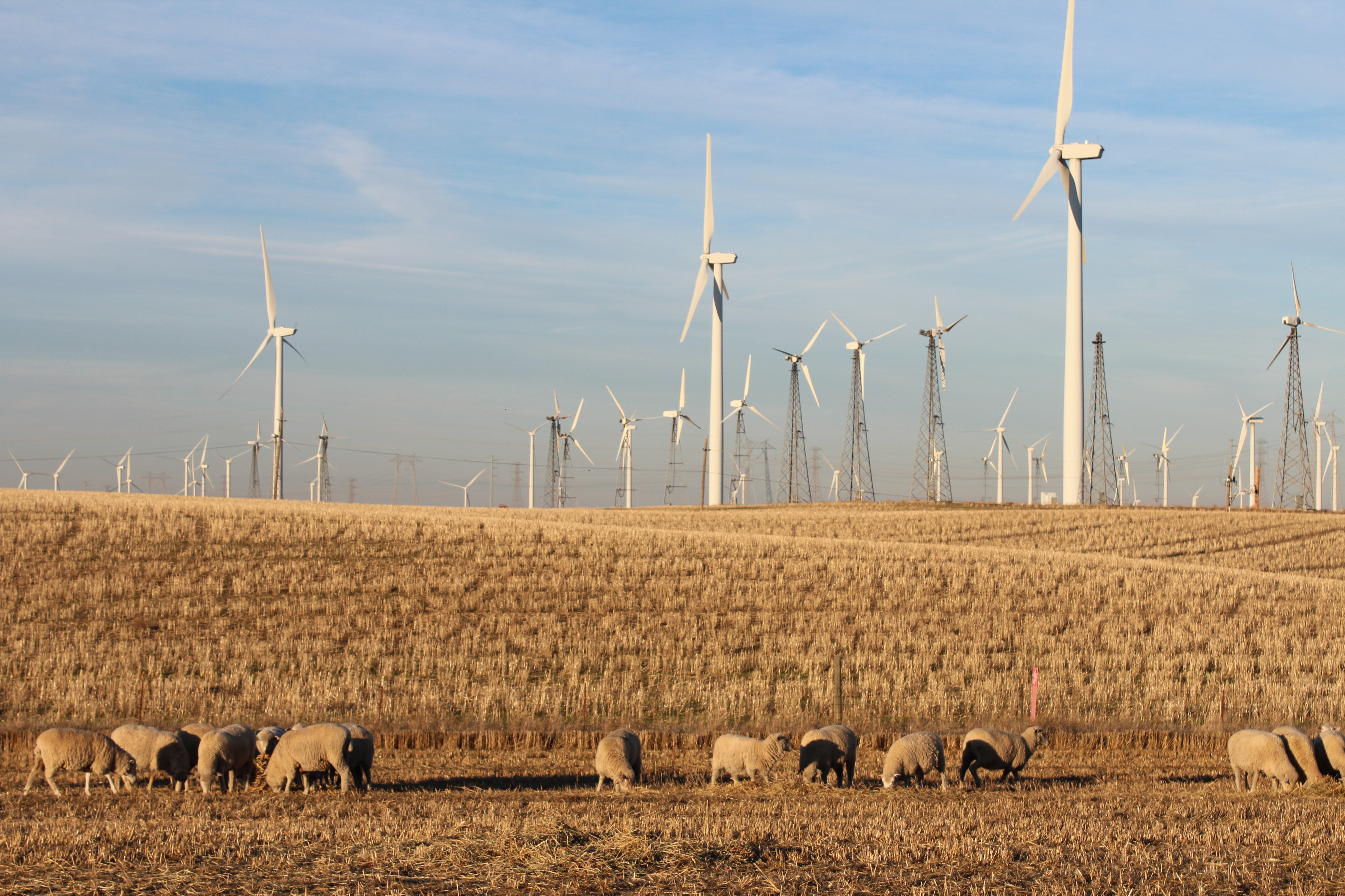 Sheep graze in a pasture adjacent to an array of old and new wind turbines at the Shiloh IV wind energy project in Solano County, California. Shiloh IV was the the first wind project in the nation to obtain an eagle take permit under the Bald and Golden Eagle Protection Act in June 2014. Photo: USFWS photo /Scott Flaherty